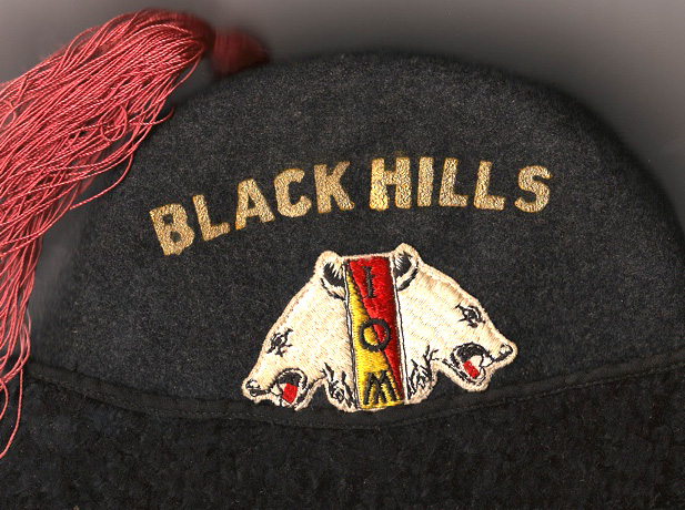 This is a fez worn by the defunct Independent Order of Odd Fellows appendant body called the Imperial Order of Muscovites. This particular fez was made by an unknown company for an unknown member of the Black Hills Kremlin, some time before 1924.